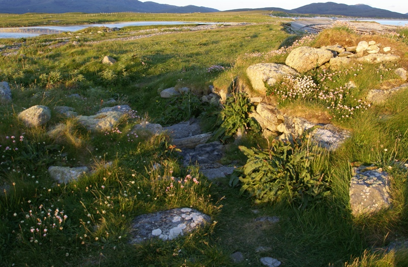 Dun Vulan, South Uist, Outer Hebrides, Scotland - eastern entrance, from the west